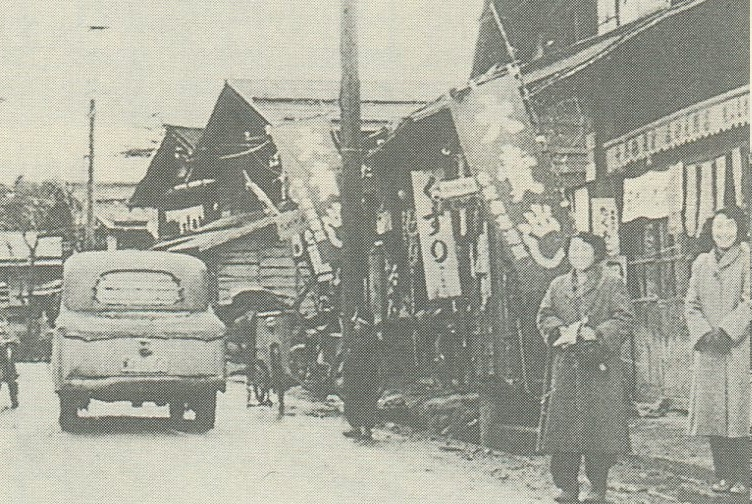 Yasuzuka center area in about 1955